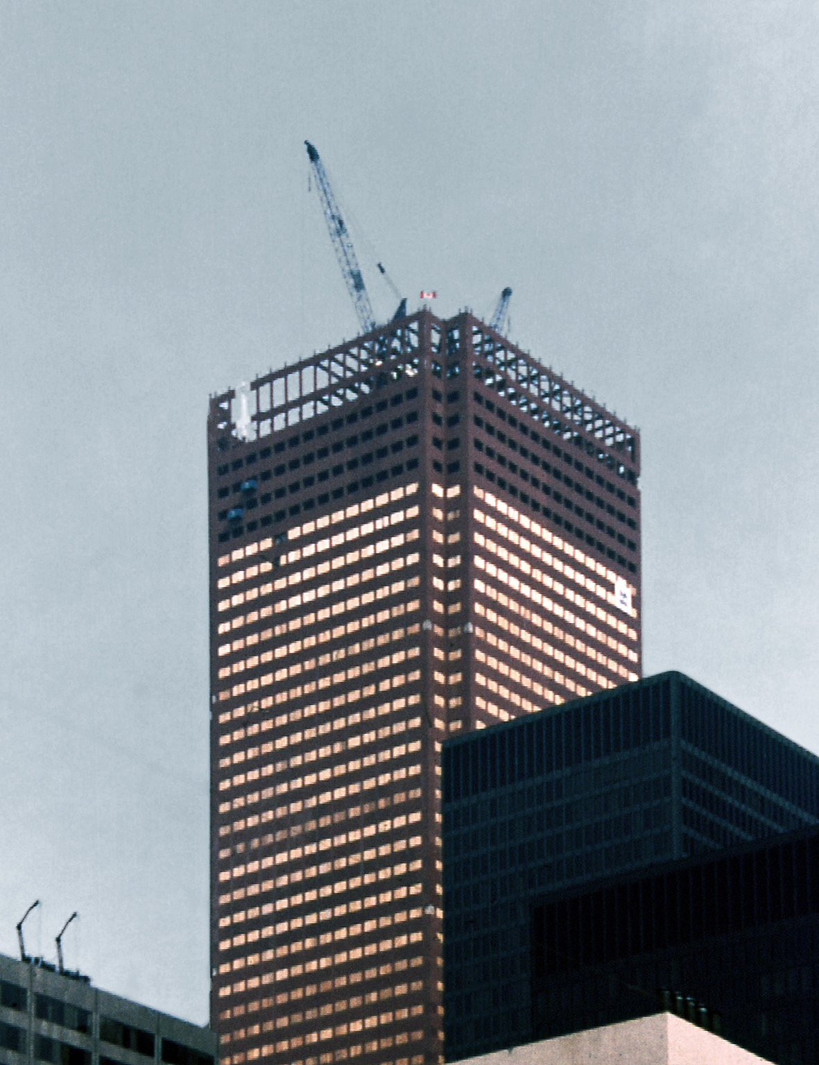 The Bank of Montreal's First Canadian Place, a 72-storey office tower under construction